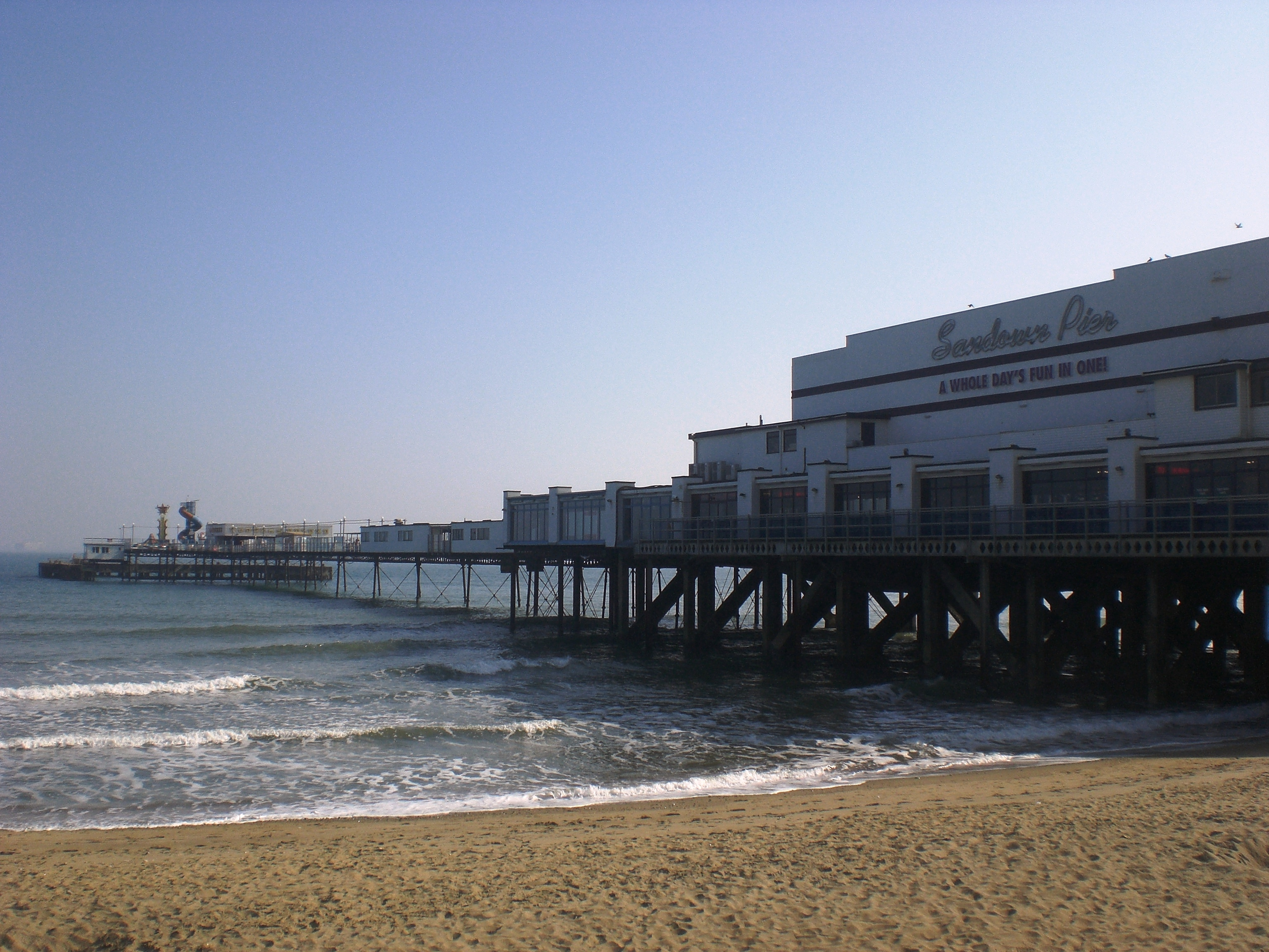 Sandown Pier, in Sandown on the Isle of Wight.